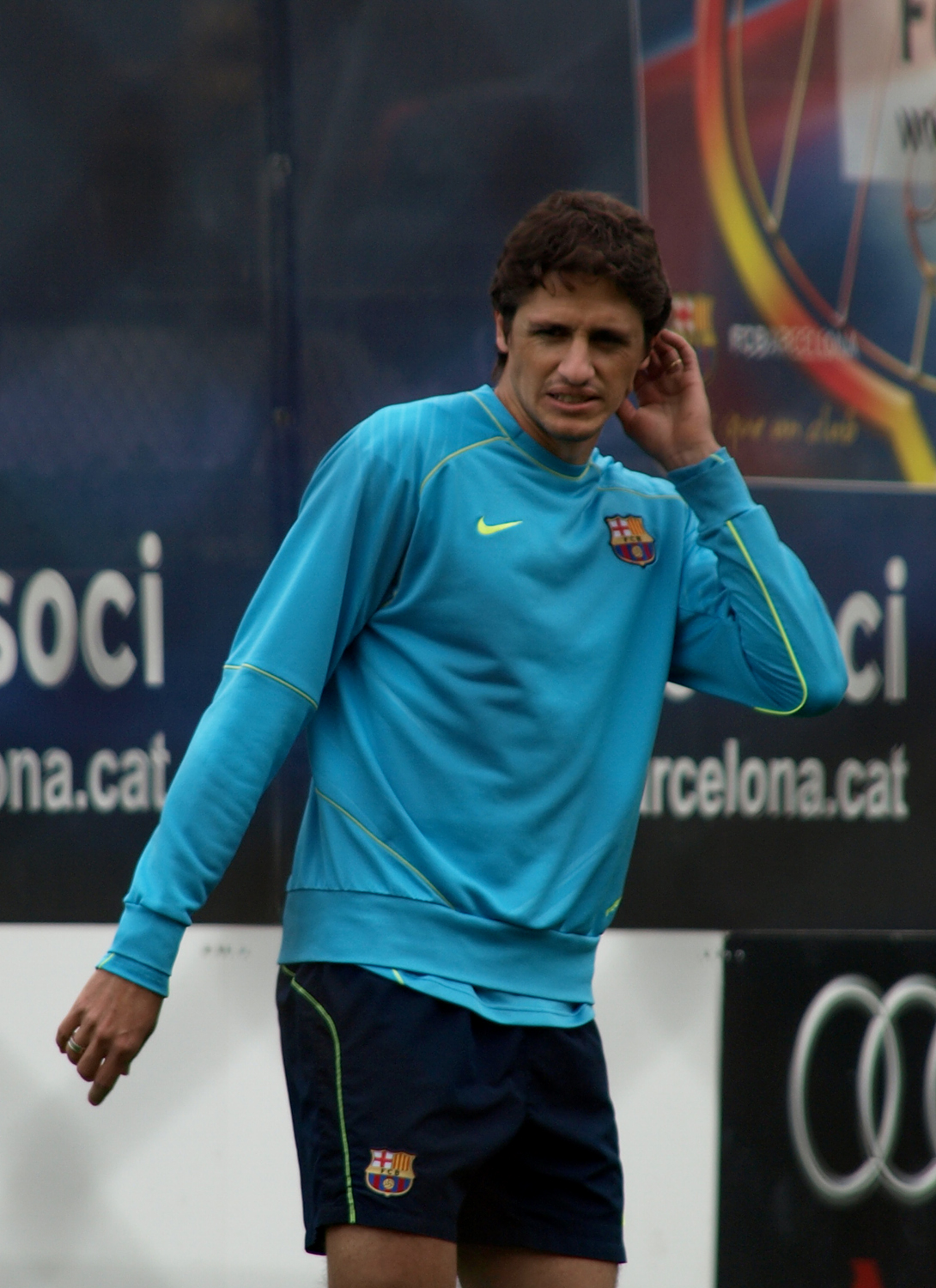 Edmílson, full name José Edmílson Gomes de Moraes, (born July 10, 1976 in Taquaritinga, Brazil) is a Brazilian football player of Italian descent. He has played as centre-back/defensive midfielder for São Paulo FC, Olympique Lyonnais and currently FC Barcelona, with a contract to end in June 2007.